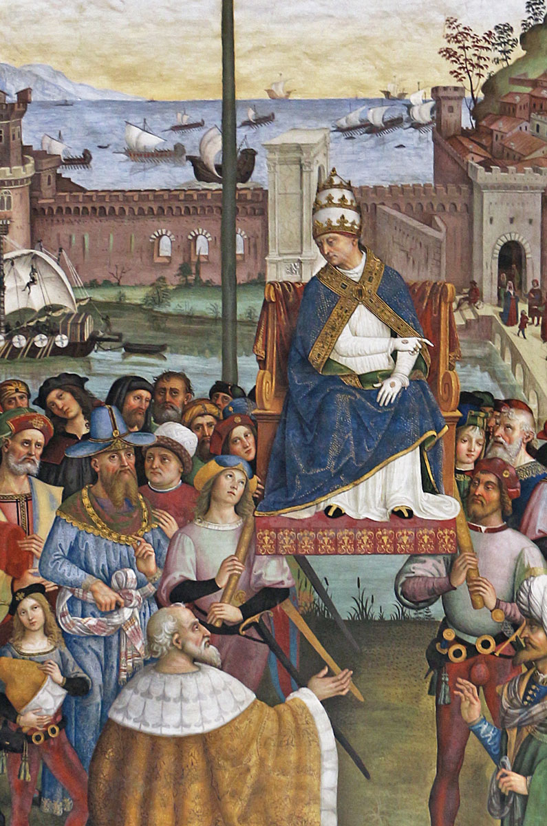 Cathedral (Siena) - Piccolomini Library - Frescos of Pius II, 10